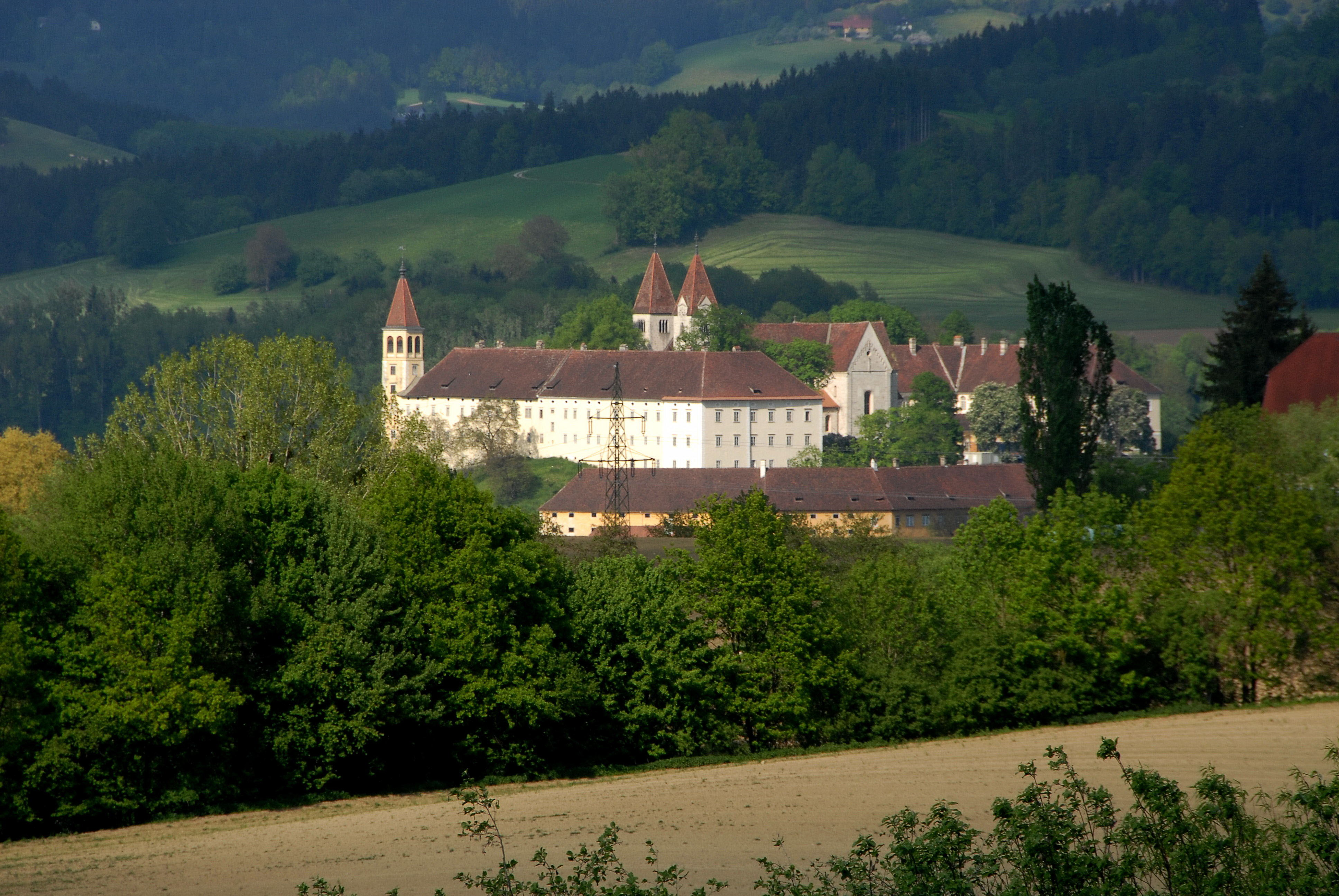 South west view at the monastery Sankt Paul, municipality Sankt Paul im Lavanttal, district Wolfsberg, Carinthia, Austria, EU